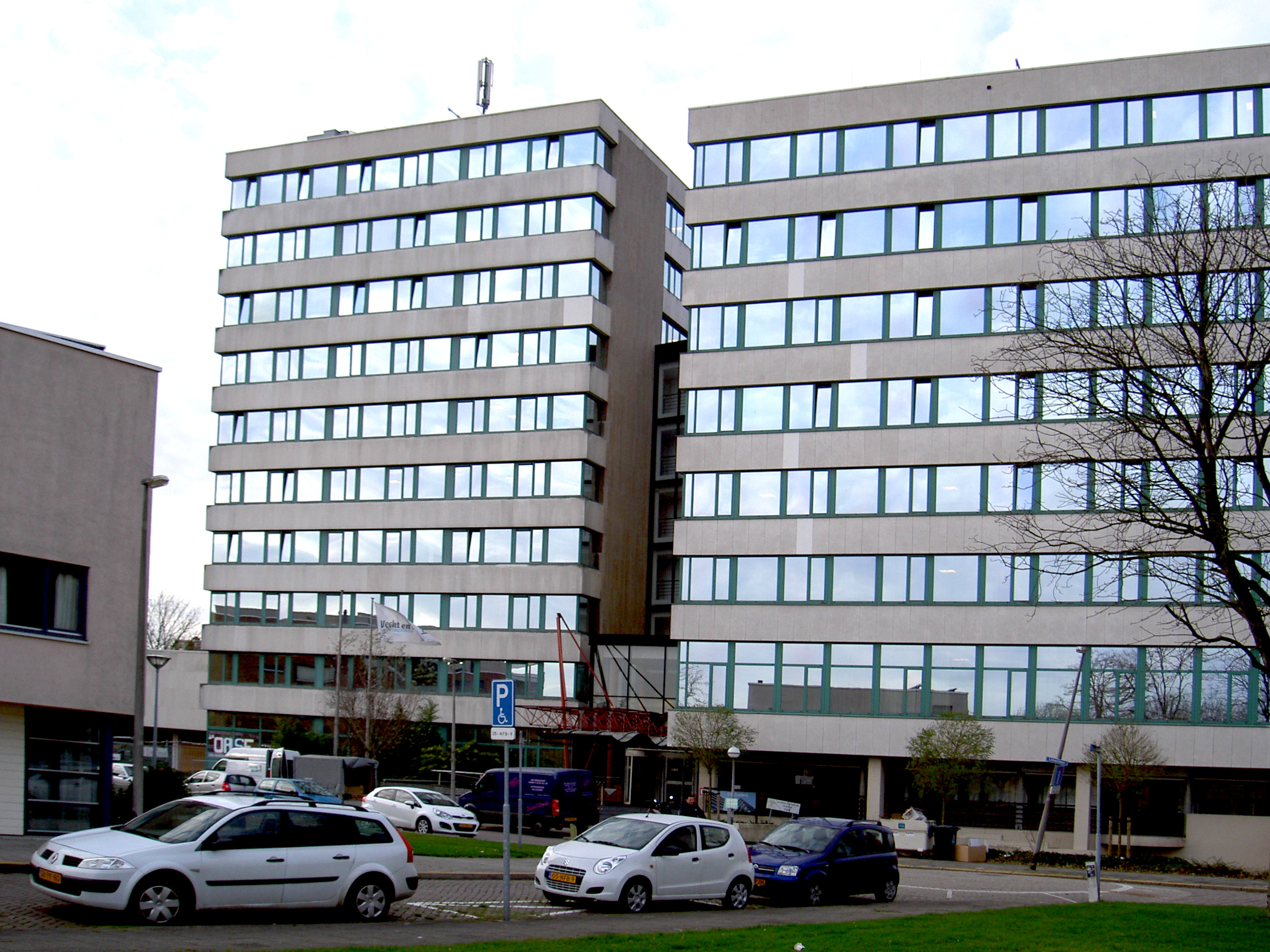 Previous Domus Medica ('medical headquarters') at the Lomanlaan in Utrecht, Netherlands.